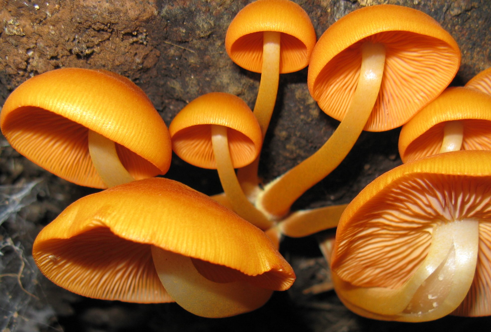 Mycena leaiana ((Berk.) Sacc.) Location: Norwich, Windsor Co., Vermont, USA Notes: Mycena leaianaCommon name: Orange MycenaThis species of Mycena is hard to miss. The entire mushroom is a shockingly bright shade of orange. The caps are perfectly hemispherical, radially lined, and so glossy and uniform they look as if they%u2019re made of plastic. The stalks are unblemished and almost entirely equal. The upper stalks fade only slightly as they approach the cap. The bases of the separate stalks are all clustered together at one location on the wood. They seem to be fastened to the substrate, and one another, with numerous whitish fibers that cover the base and ascend the stalk briefly. The gills were essentially the same spectacular orange as the cap and stipe, although this species has white spores, which could cause them to appear faded. I found these two clusters growing on a fallen maple tree. The immature group was growing underneath the bark, so I stripped it away to show all of the stalks meeting, and forming one connection for the entire cluster.